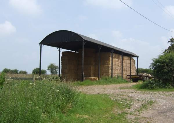 Well stocked barn The open sided barn at Lizardmill Farm.